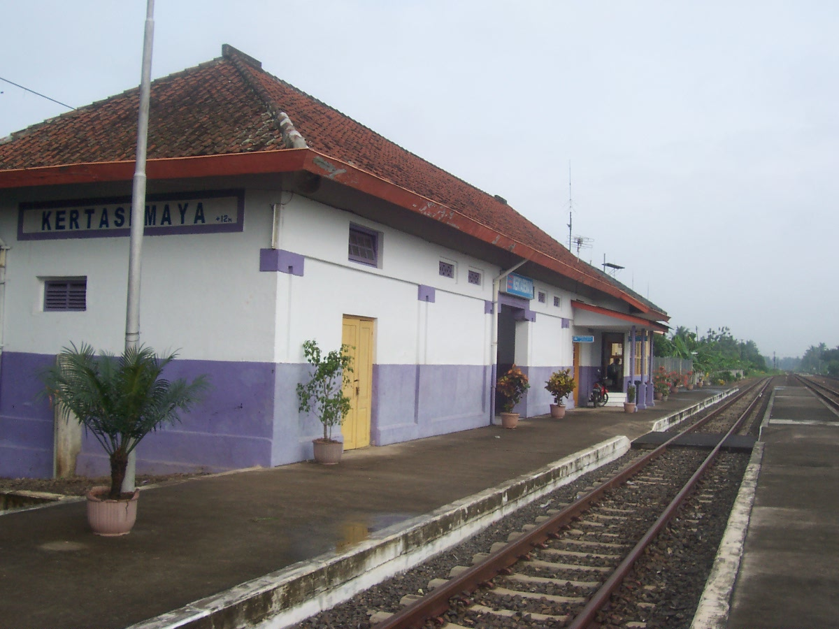 Kertasemaya train station 2011